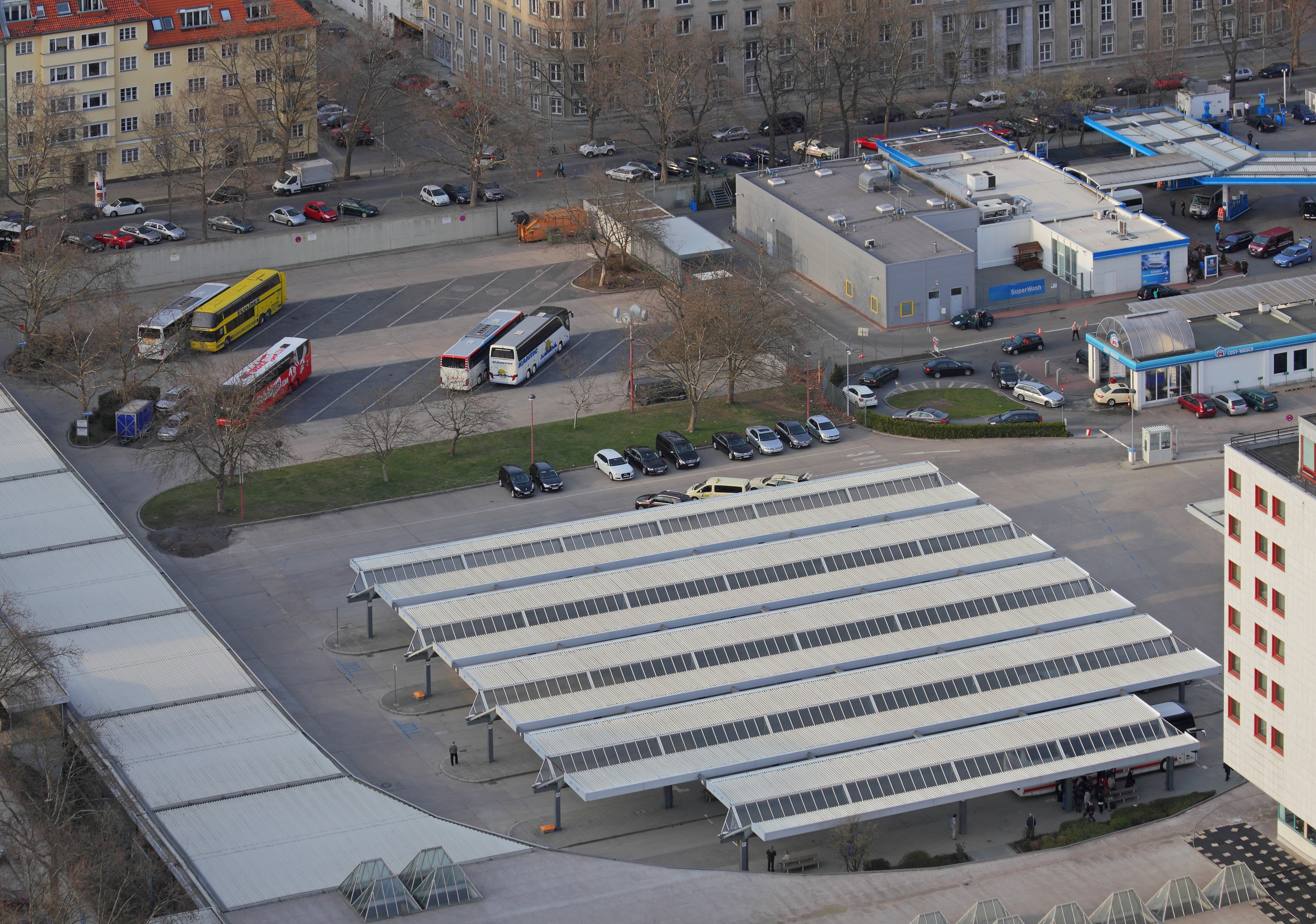 Berlin views from Radio Tower at the Trade Fair.